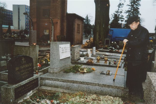 Jan Twardowski (1915-2006), Polish writer, catholic priest